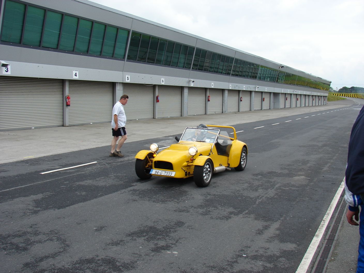 A photo of a Sylva Striker on a trackday at Mondello Park (2007)